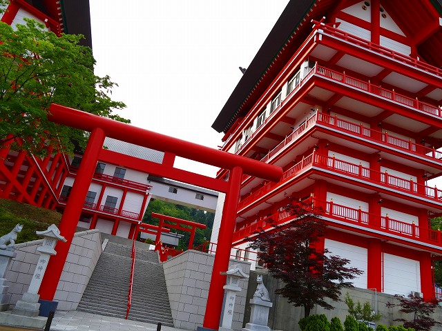 Hotokusan Inari Taisha Shrine, a Inari shrine in Nagaoka, Niigata Prefecture, Japan